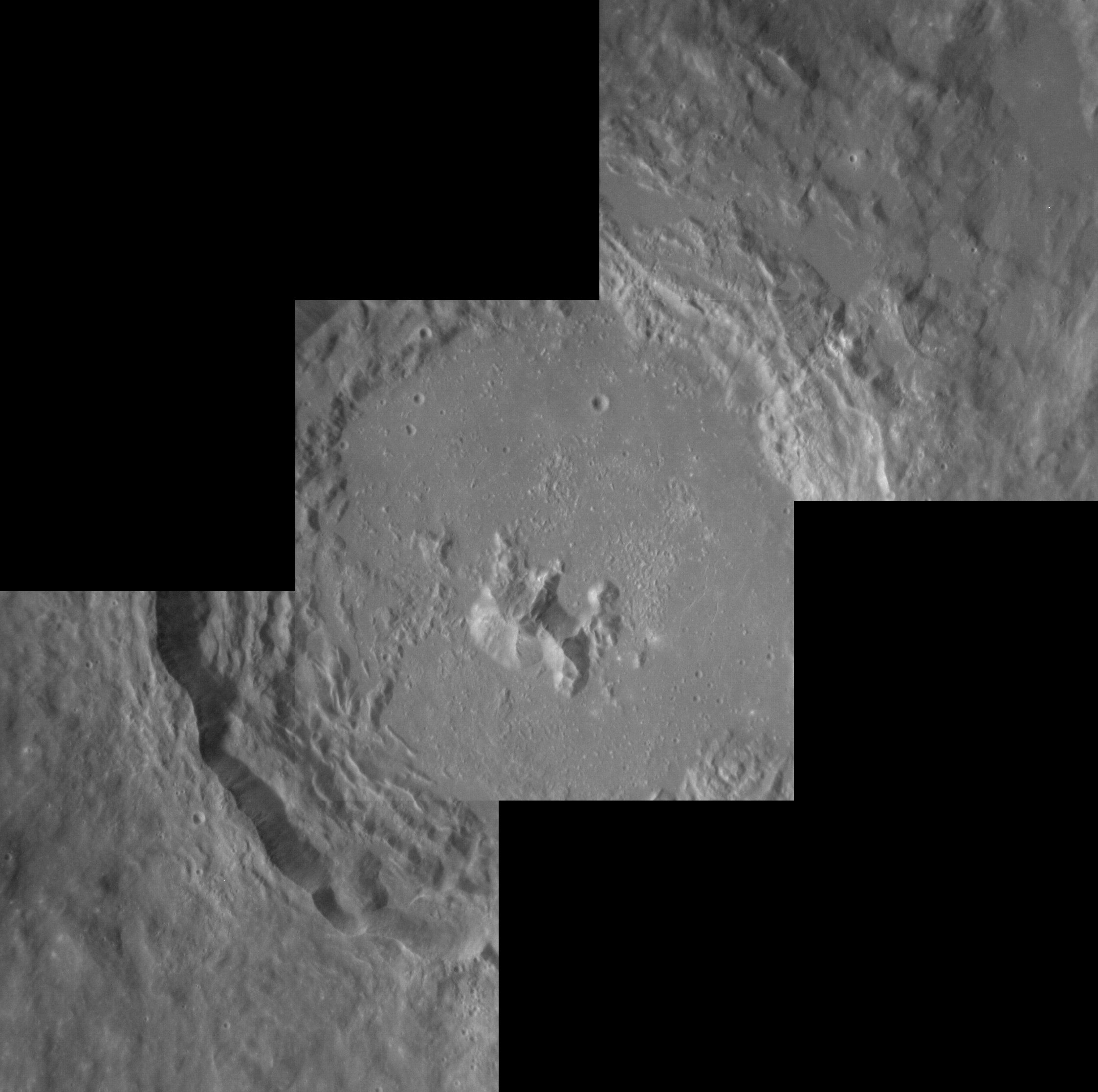 Erté crater on Mercury. Mosaic of MESSENGER Narrow Angle Camera images. Approximate north is in upper right. Source images are: EN1008771355M EN1008771367M EN1008771379M Statistics for the center image are: Emission Angle: 20.9 Incidence Angle: 40.4 Latitude: 27.5 Longitude: 242.8 Phase Angle: 61.3